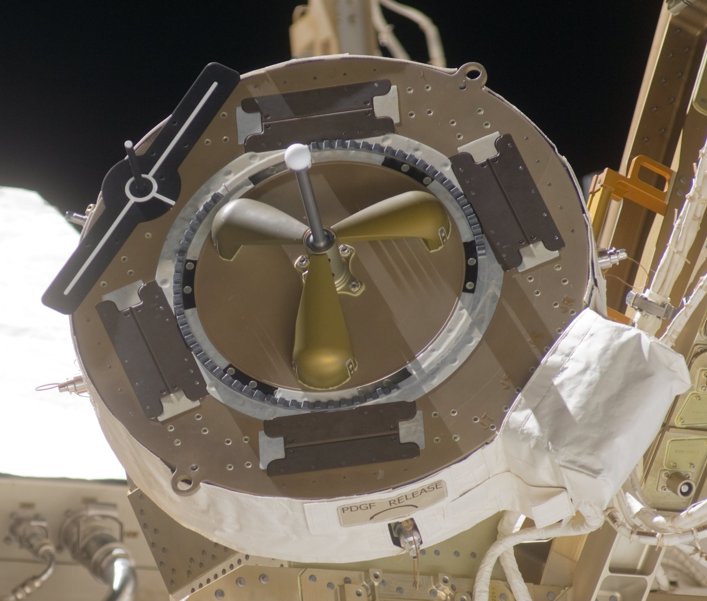 None.